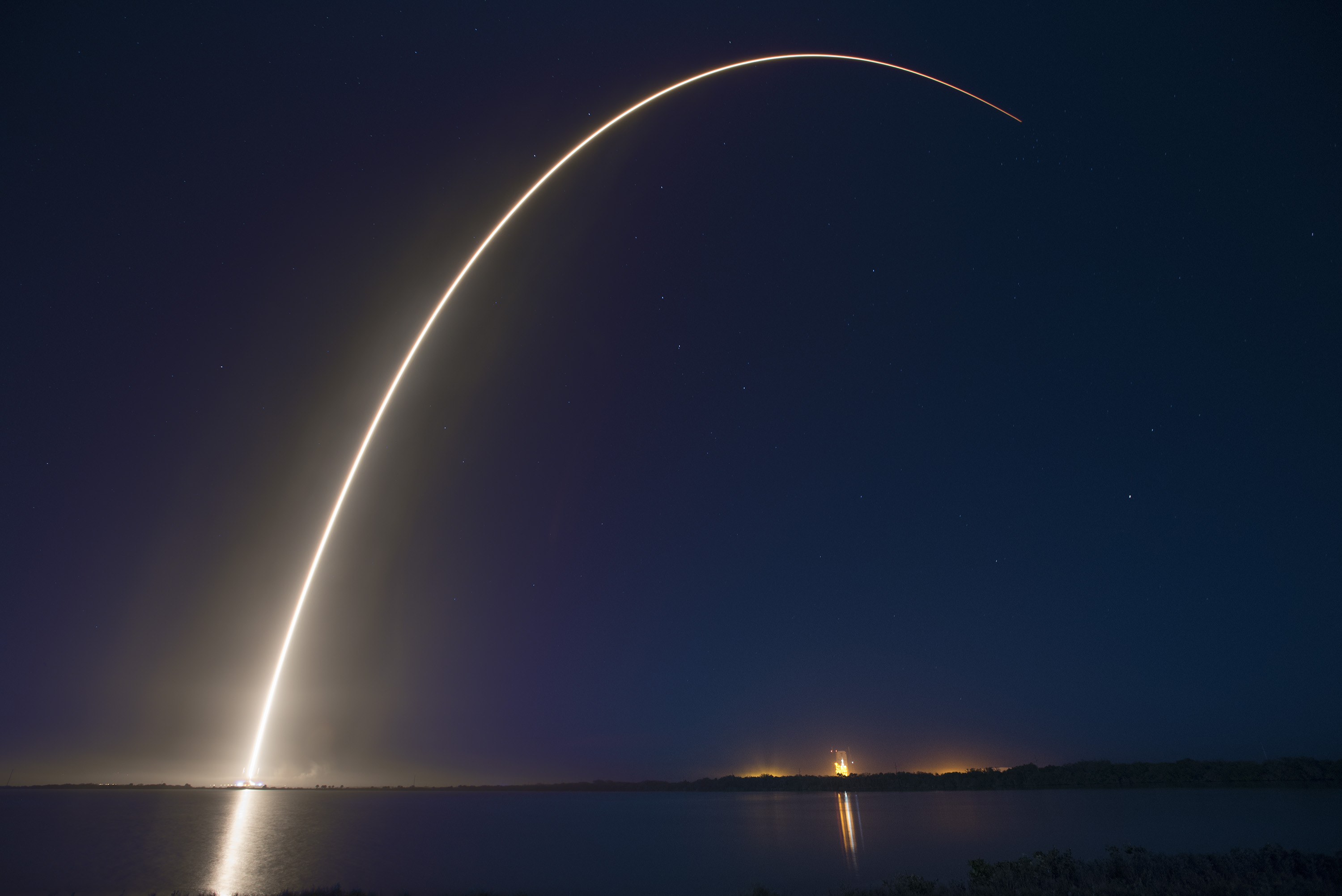 SpaceX's Falcon 9 rocket delivered the ABS 3A and EUTELSAT 115 West B satellites to a supersynchronous transfer orbit, launching from Space Launch Complex 40 at Cape Canaveral Air Force Station, Florida on Sunday, March 1, 2015 at 10:50pm ET.